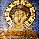 portrait picturing St. James as a pilgrim, fresco exterior wall Cathedral of Le Puy en Velay